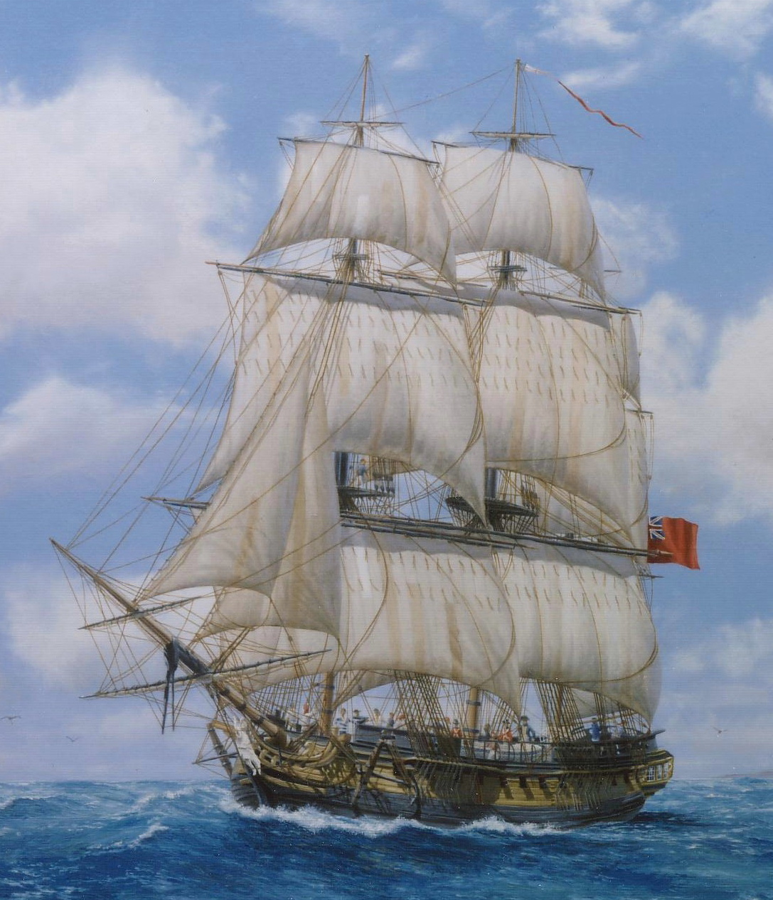 Detail from the painting (oil on canvas) by Bristol artist Chris Woodhouse of the 36-gun Bristol-built frigate HMS Melampus, commissioned and purchased in 1990 by Bristol City Museum on behalf of Bristol City Council, to be a permanent exhibit in Bristol Industrial Museum in Port of Bristol section to mark the bi-centenary of the building of French Wars frigates in Bristol. The painting was unveiled by the Chairman of the Arts Council of Great Britain, Sir Peter Palumbo, in 1990 at a ceremony televised by the BBC and ITV, and attended by the Lord Mayor of Bristol and City Councillors.